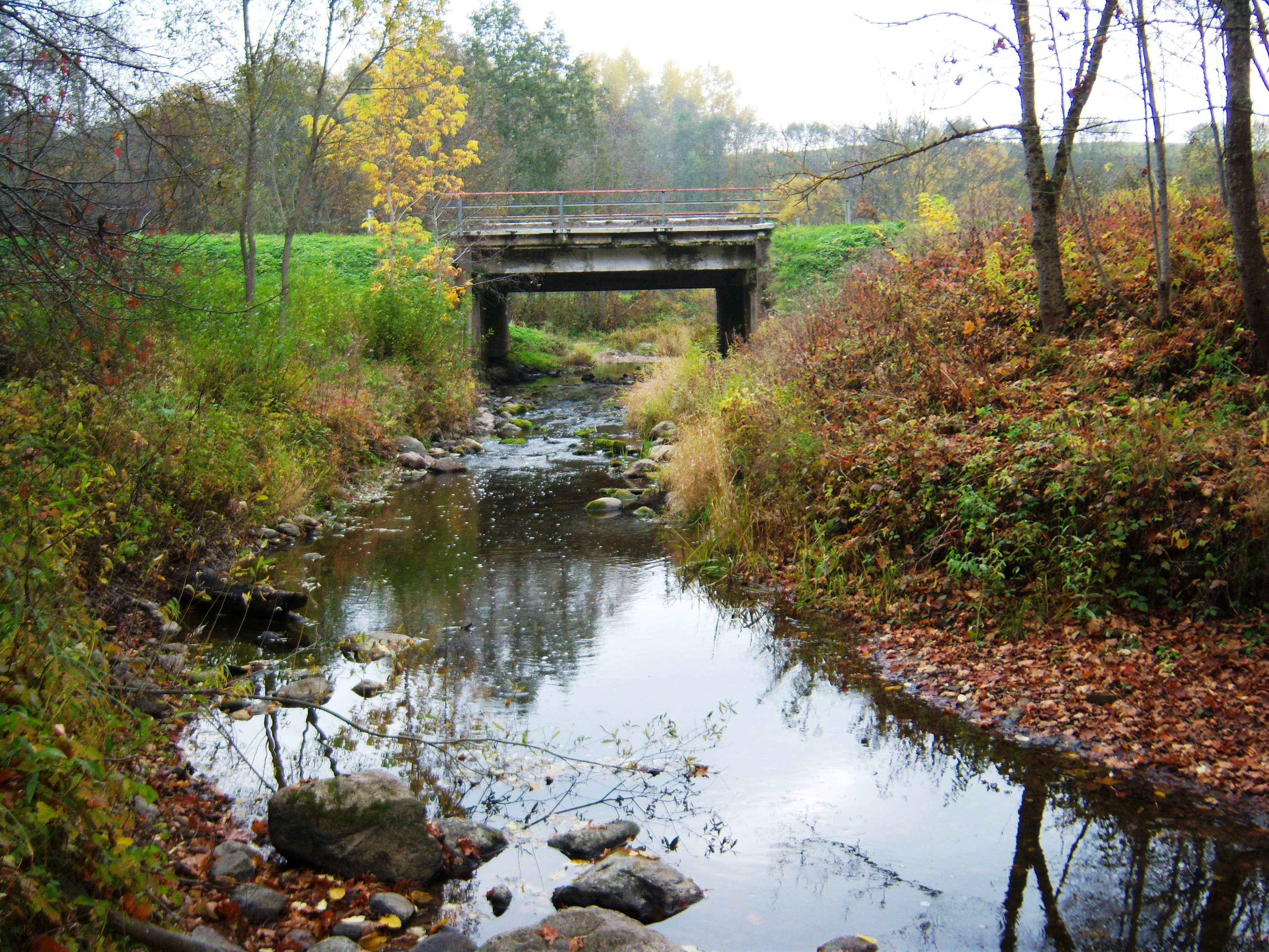 Anykšta River, Žažumbris, Anykščiai District, Lithuania